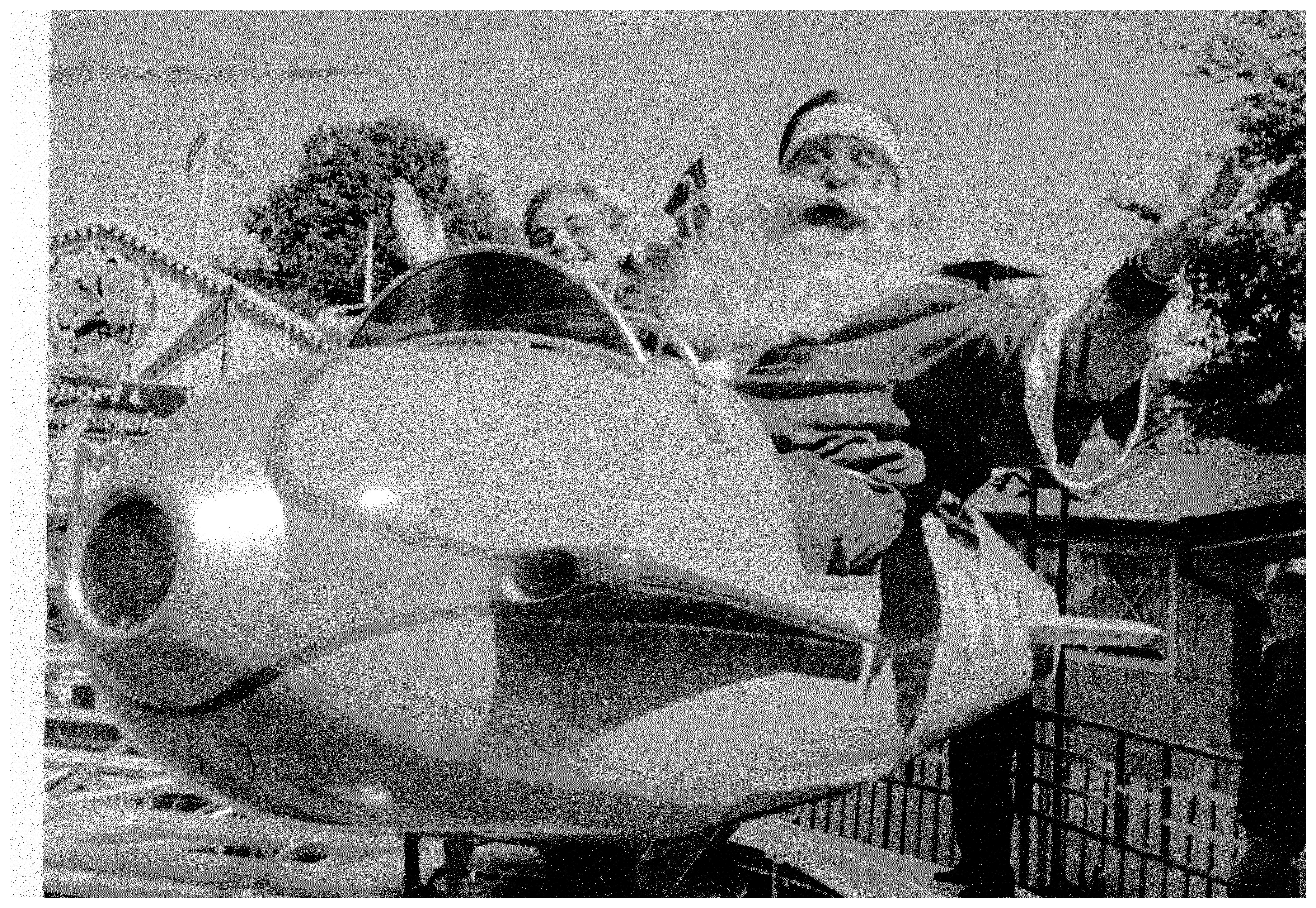 Professor Tribini at the World Santa Claus Congress (Julemændenes Verdenskongres) in the amusement park Bakken north of Copenhagen. It was the showman and actor Professor Tribini (real name: Christian Nielsen) who came up with the idea of the congress in 1957.